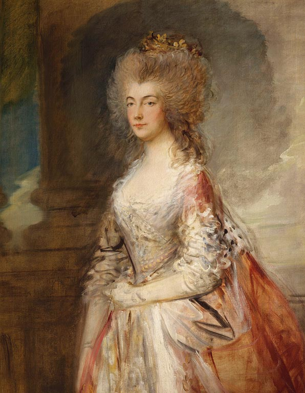 Portrait of Anne, Duchess of Cumberland, wife of Prince Henry Frederick, Duke of Cumberland